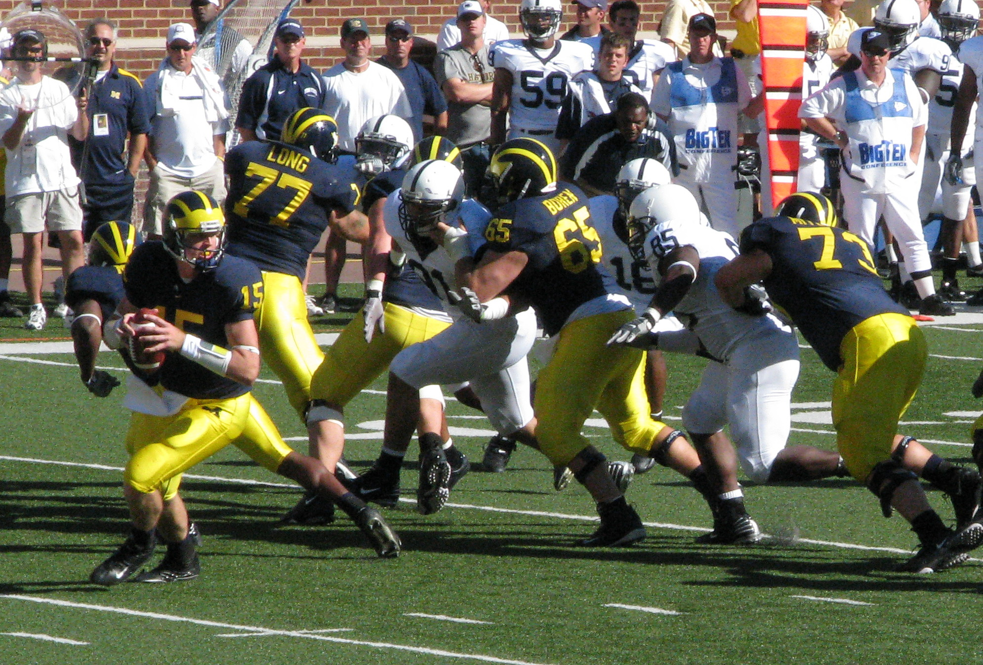 Ryan Mallett (#15) rolls out against w:2007 Penn State Nittany Lions football team. Among the visible linemen is Jake Long (#77)